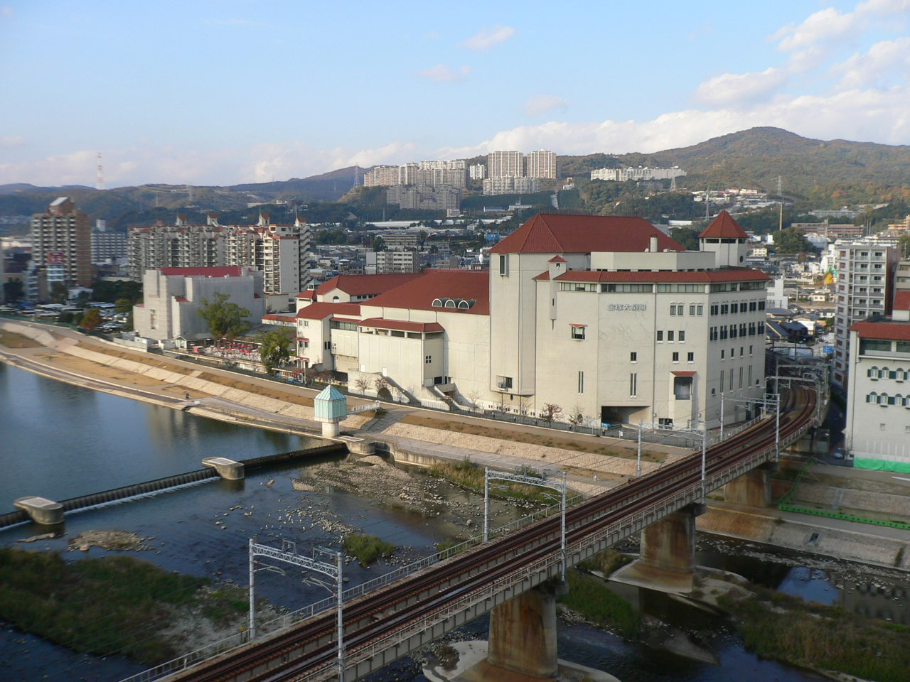 Takarazuka, Hyogo Prefecture, Japan.